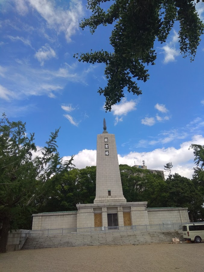 Kyoikuto, the Education Tower, found in Osaka Castle Park. Taken in 17th June 2019. It is a memorial for the victims of Muroto typhoon in 1934.